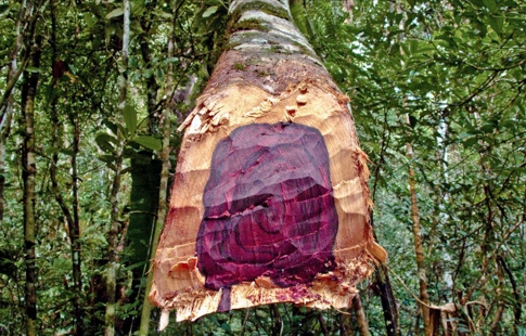 Aniba rosaeodora